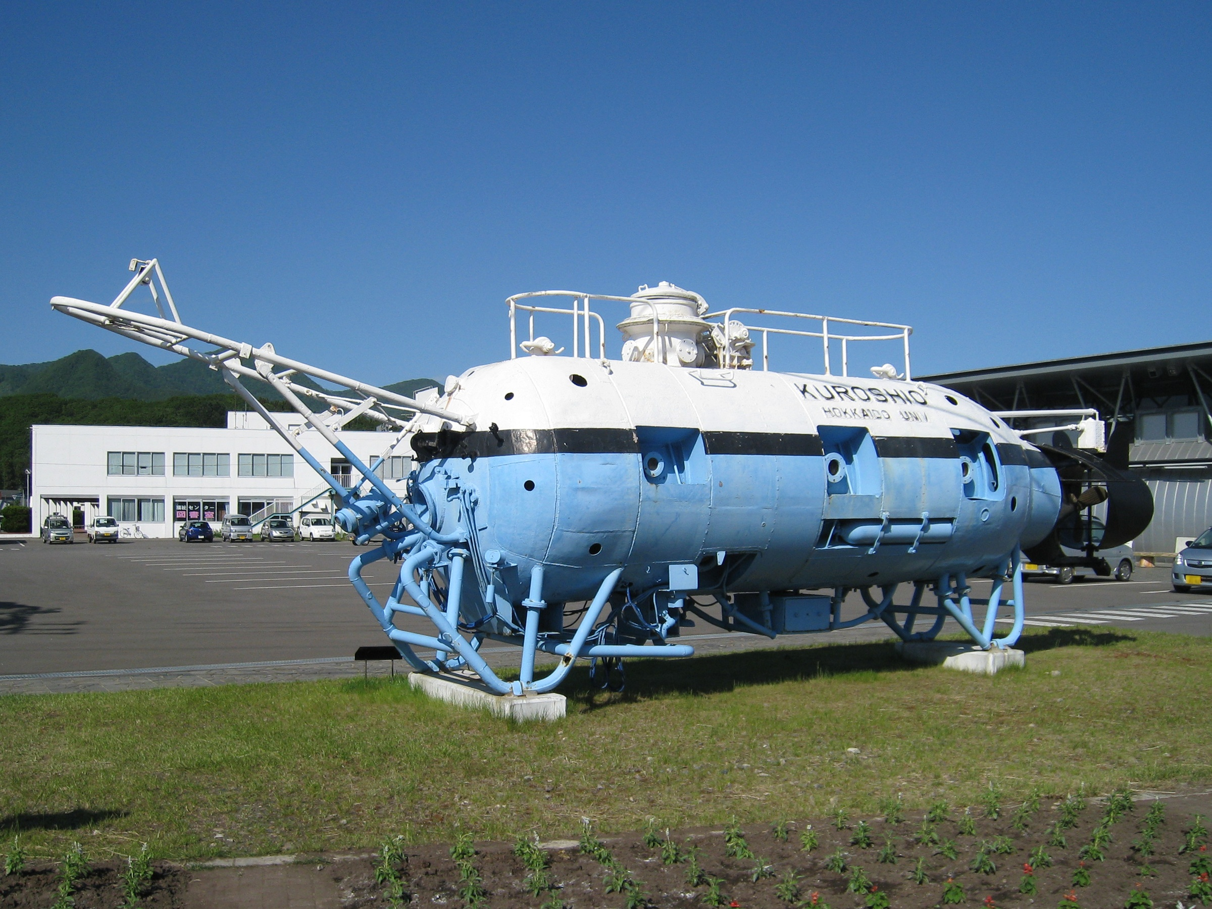 Submersible KUROSHIO II in Seikan Tunnel Museum of Fukushima Town, this photo took in June 12, 2008